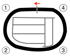 The file shows the outline (black) of Eldora Speedway and the roads within the speedway (gray).